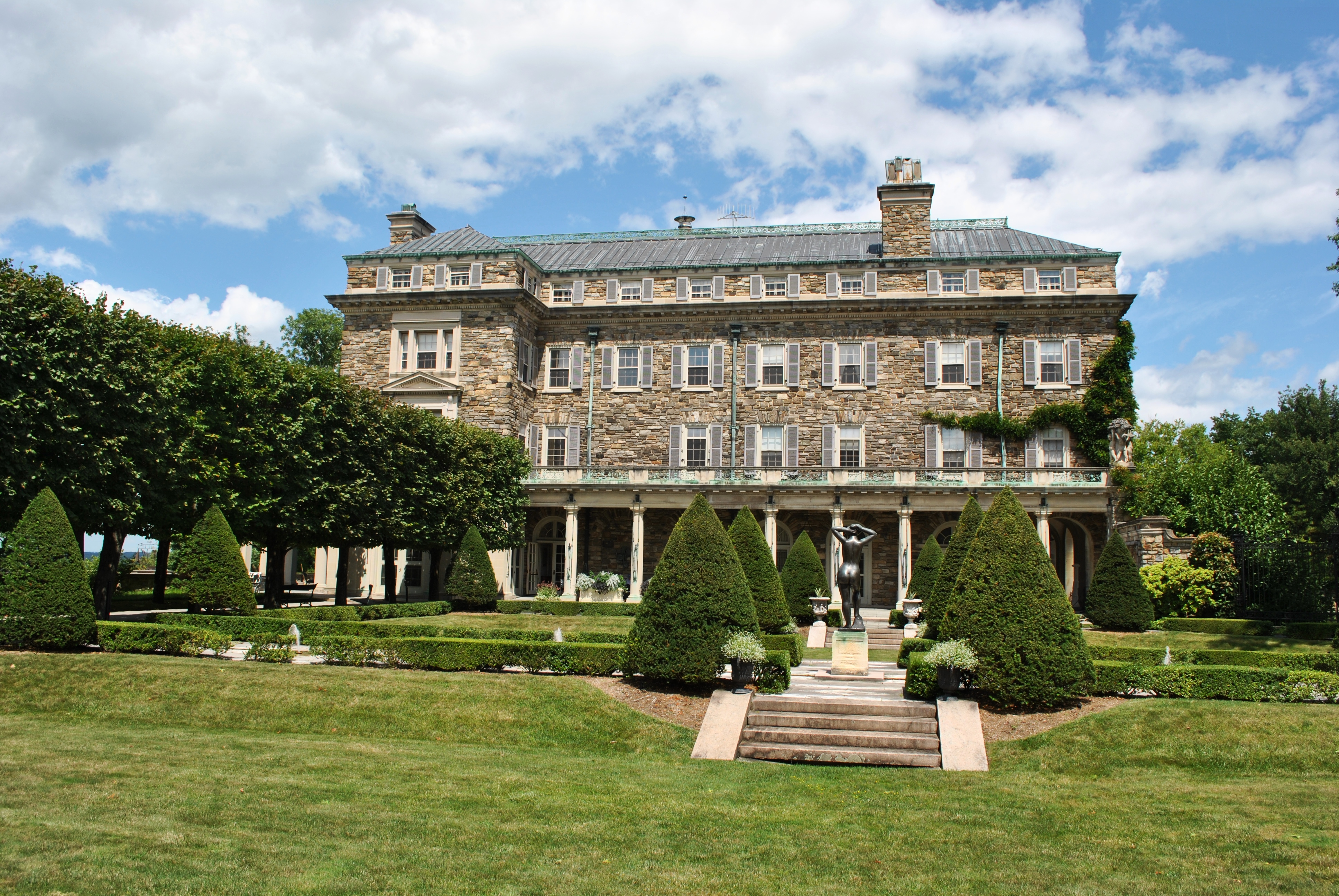 Kykuit